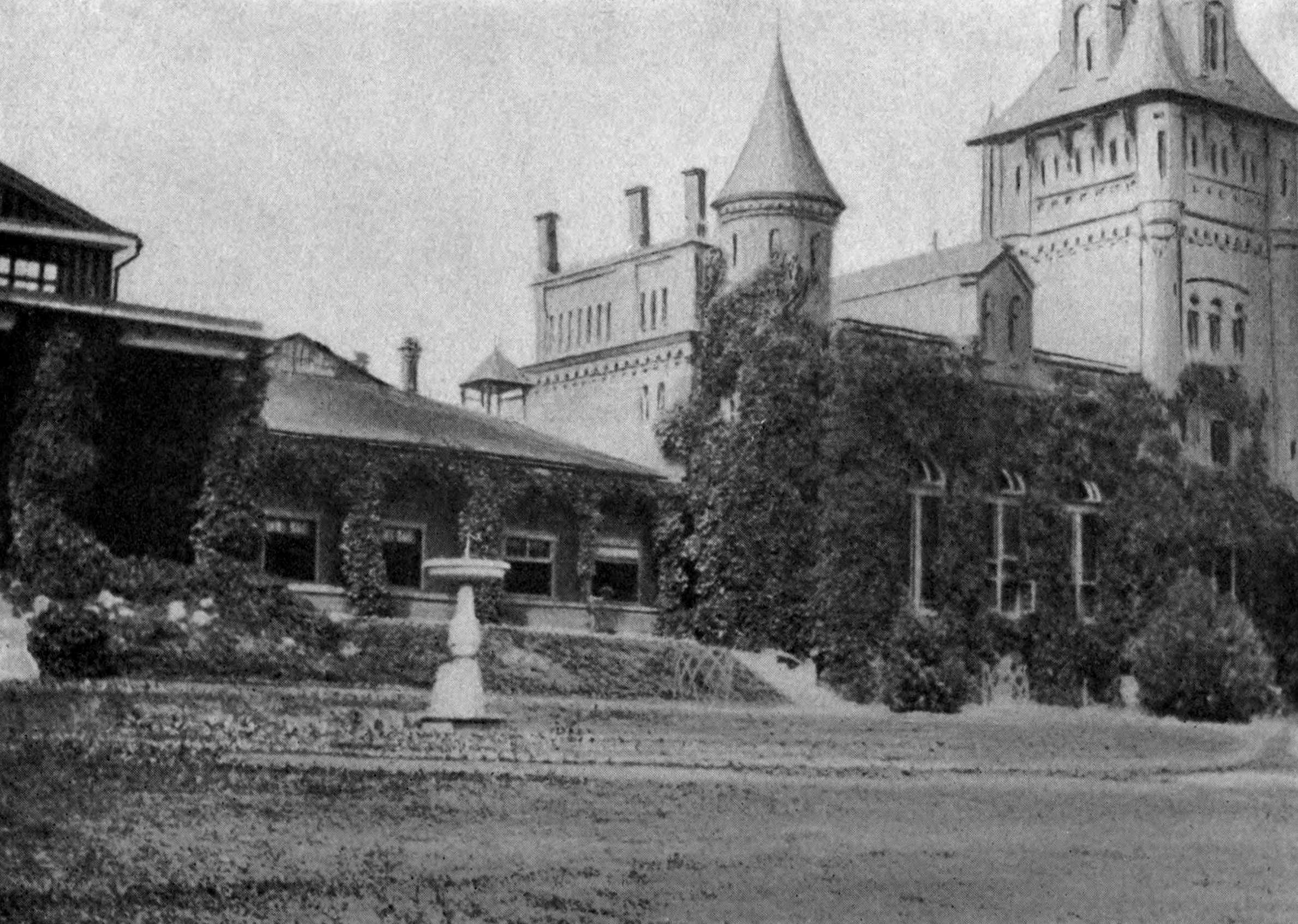 The estate of the Cantacuzène family, Bouromka, in Poltava; birthplace of Russian Imperial Minister Prince Cantacuzène, Count Speransky